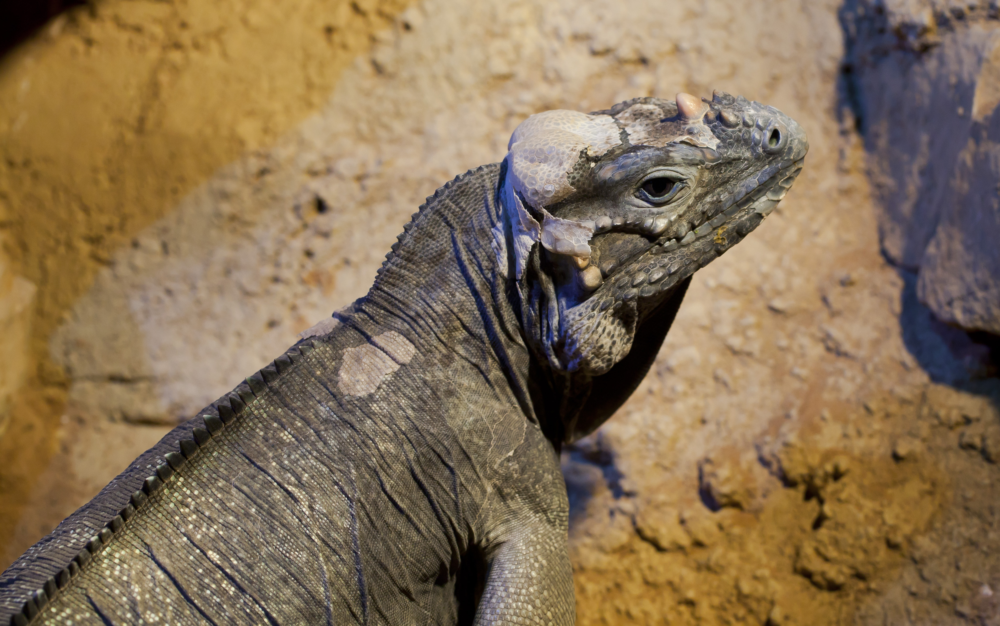 Rhinoceros Iguana (Cyclura cornuta), Tierpark Hellabrunn, Munich, Germany